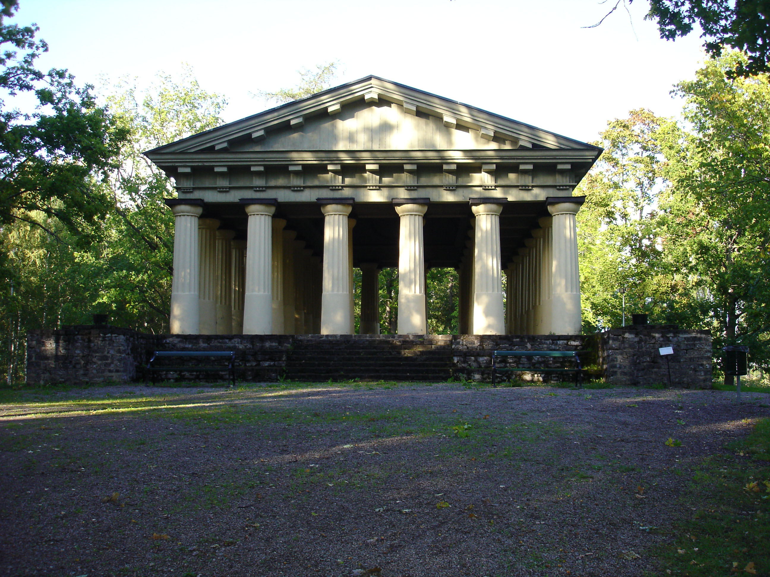 The temple is a copy of the Temple of Theseus in Athens. Following two years of intensive building it was inaugurated on Midsummer´s Eve 1797.